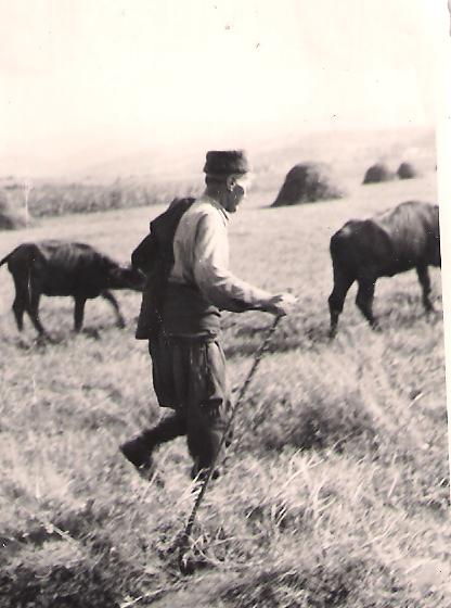 Tono Benchov Bakov, Ravnishte, 1965